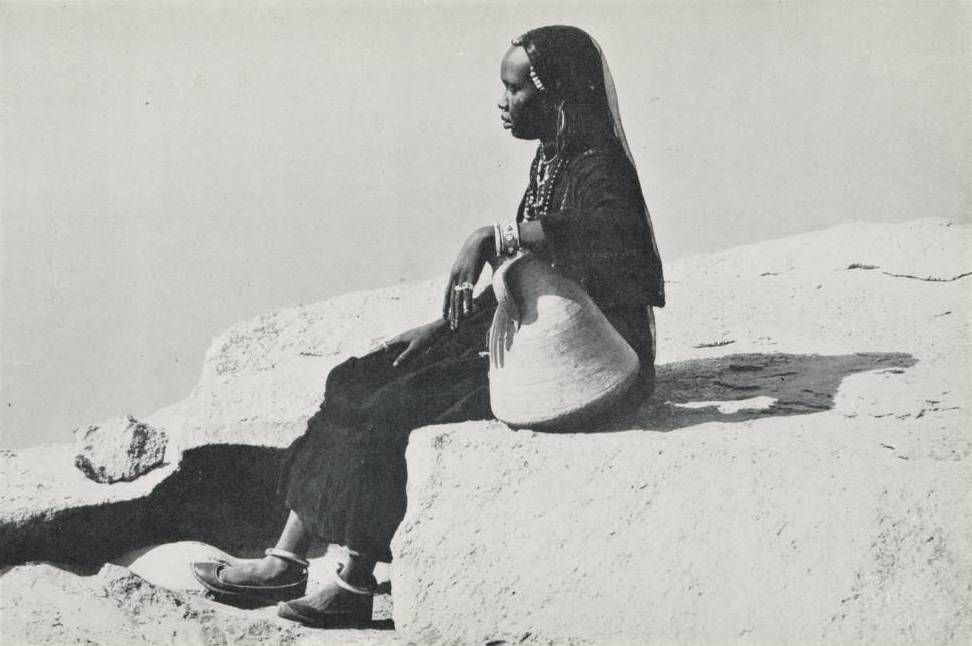 A Nubian woman sitting on a rock with a jug.